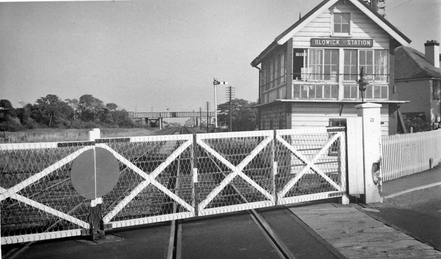 Site of Blowick Station. View eastward, towards Wigan and Manchester; ex-L&Y Manchester - Wigan - Southport line. Although this station was closed to passengers as long ago as 25/9/39 (goods 7/9/64), all trains have been run into Southport over the loop through Meols Cop since 6/65 instead of this direct line. The bridge in the distance carried the branch line from Altcar via Barton.